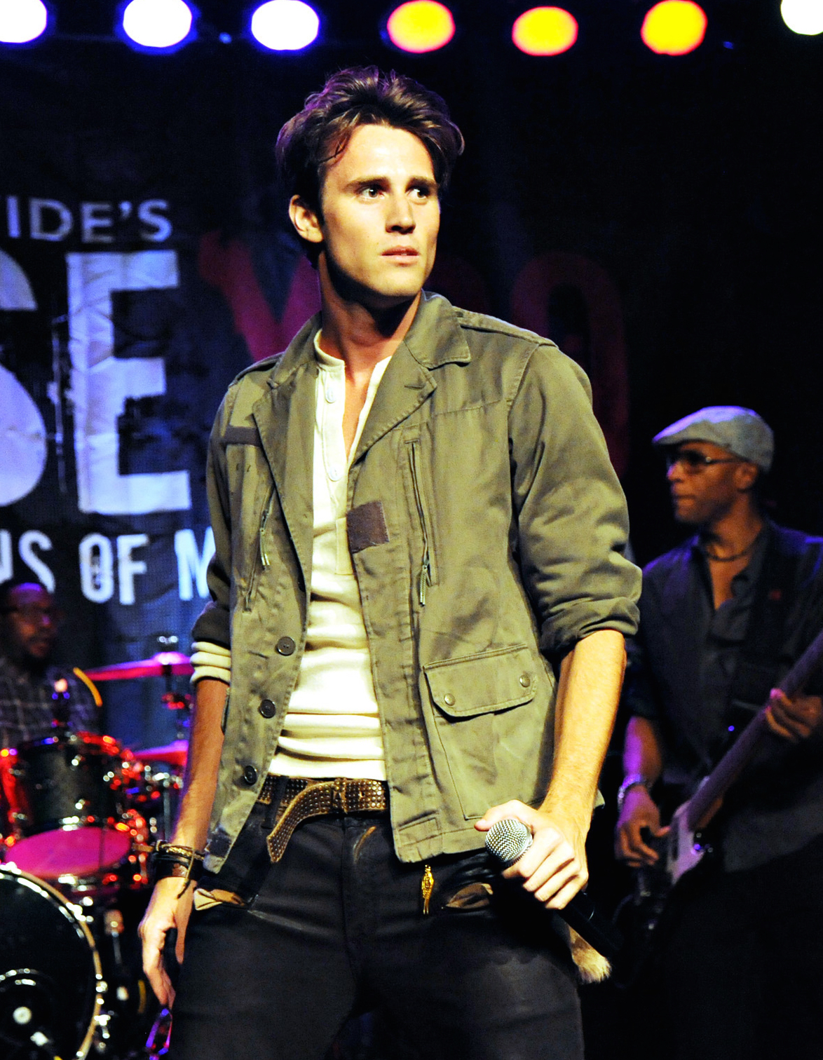 Sonny Fredie Pedersen performs in Hollywood, CA in 2013